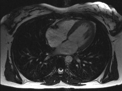 MRI slice of my heart